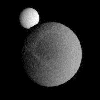 Original Caption Released with Image: Enceladus peeks over the limb of Dione during a partial occultation. Dione (1,123 kilometers, or 698 miles across), like most of Saturn's icy moons, has a rather bright, reflective surface. But Enceladus is far and away brighter. As the most reflective body in the Solar System, Enceladus returns to space about 99 percent of the visible light that strikes it. The spray that issues from the geologically active south polar region of Enceladus (504 kilometers, or 313 miles across) coats the moon in fresh, white ice and replenishes Saturn's E ring. Images like this are extremely useful for scientists, as they show both moons together at approximately the same solar illumination angle. This gives a reference point for researchers to compare data about how the moons reflect light when they are not seen together on the sky. The image was taken in visible light with the Cassini spacecraft narrow-angle camera on Sept. 13, 2008. The view was acquired at a distance of approximately 877,000 kilometers (545,000 miles) from Dione and 1.2 million kilometers (740,000 miles) from Enceladus. Image scale is 5 kilometers (3 miles) per pixel on Dione and 7 kilometers (4 miles) per pixel on Enceladus.